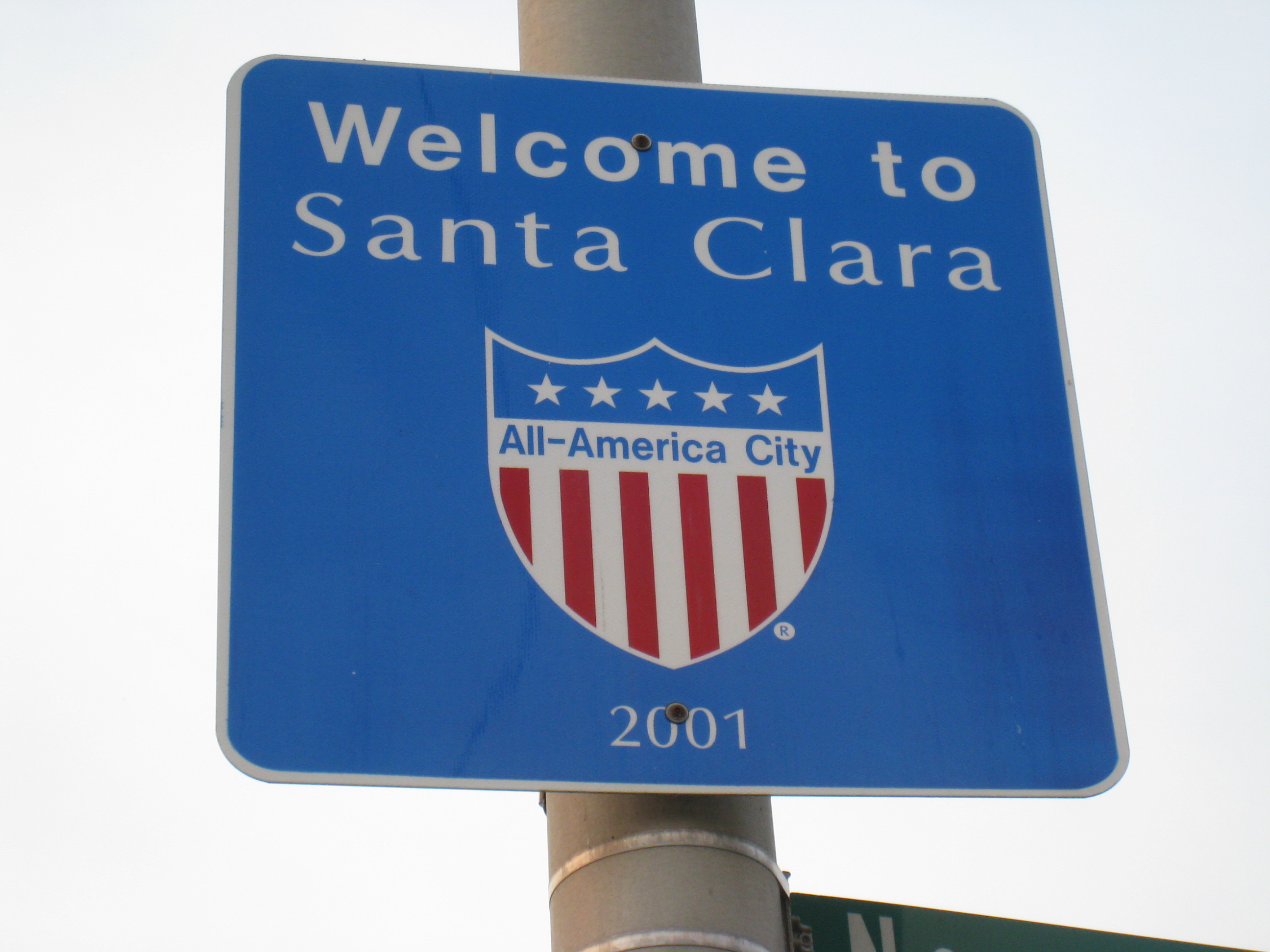 A welcome sign in Santa Clara, California proclaims the city's status as an All-America City in 2001.